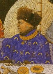 Portrait of Jean, Duc de Berry